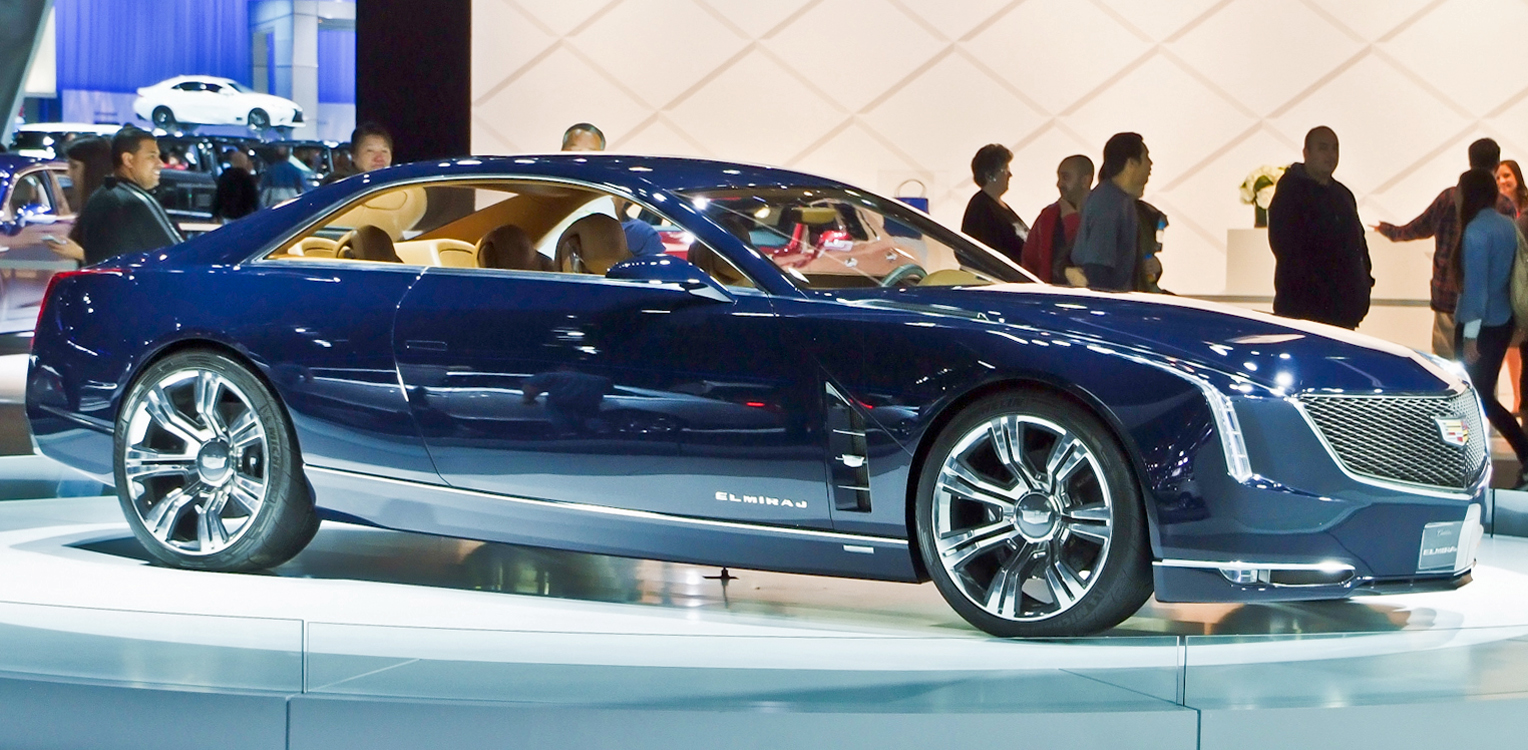 Cadillac Elmiraj concept car exhibited at the 2013 LA Auto Show.